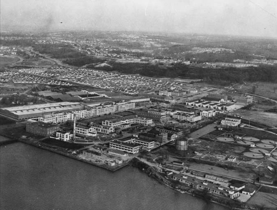 The campus of the U. S. Naval Research Laboratory in late 1944, view from the southwest.